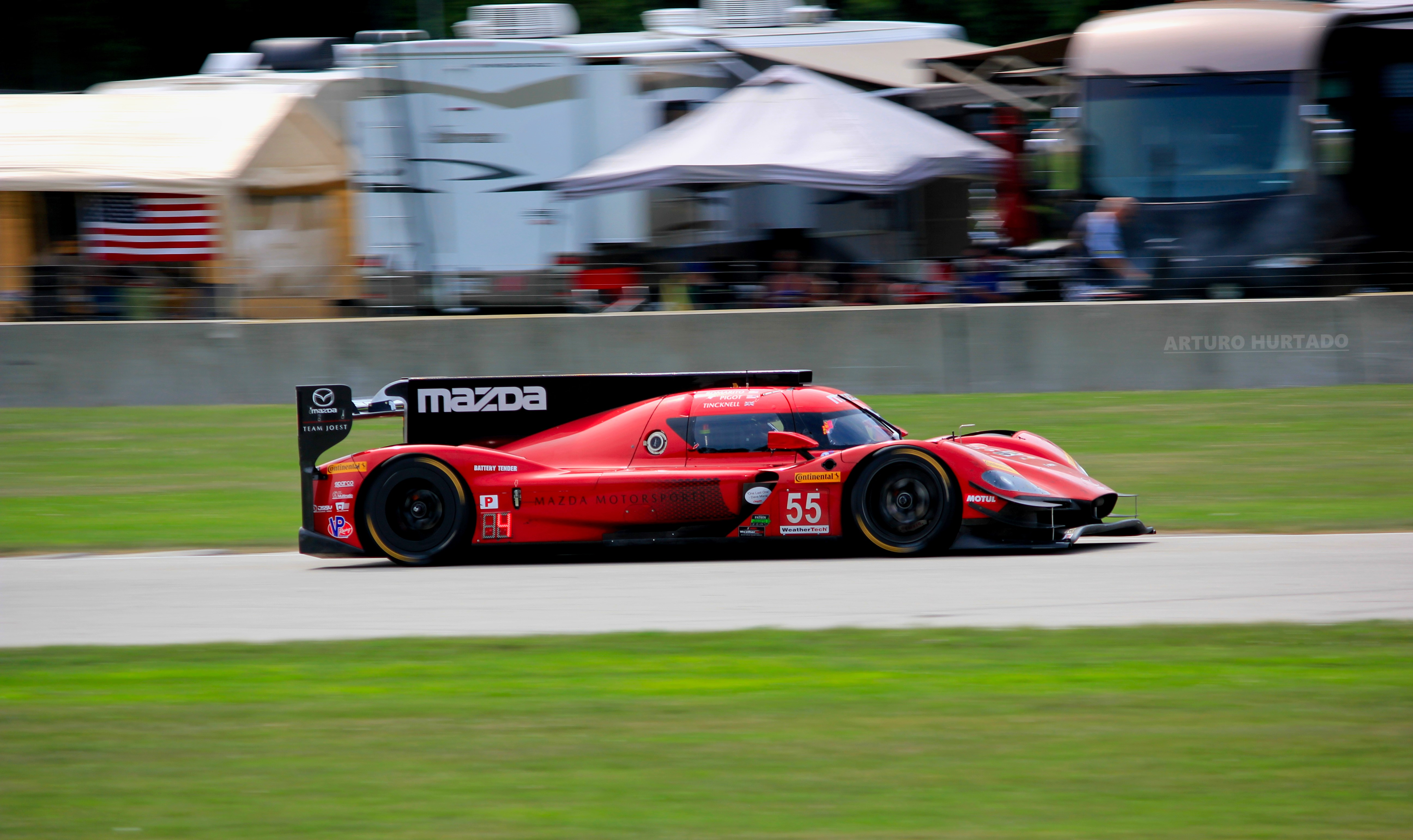 2018 Road Race Showcase Mazda RT24-P n°55 in action driven by Jonathan Bomarito and Harry Tincknell